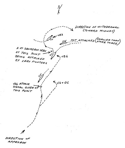 Sketch from battle of Midway: attack on japanese carriers performed by VB-6 (targeting Akagi)and VS-6 (targeting Kaga) from Enterprise. Attack of a part of VB-6 on Akagi is not sketch in. This sketch was part of Lt. Joe R. Penland action report. Penland was flying SBD 6-B-7 (serial number 4532).